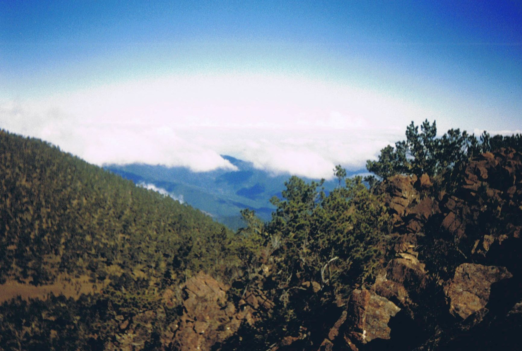 View from atop la Pelona mountain, in central mountain range of the Dominican Republic. Visible is half of Pico Duarte, and on the bottom left, a corner or the grass-covered Valle de Lilís. Photo taken in 1996 on 35 mm film and later scanned.